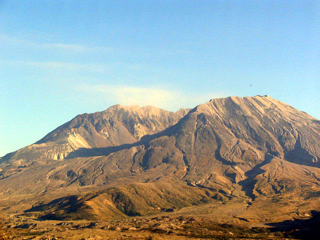 View of Mt St Helens crater from the north, showing dust rising from landslides.